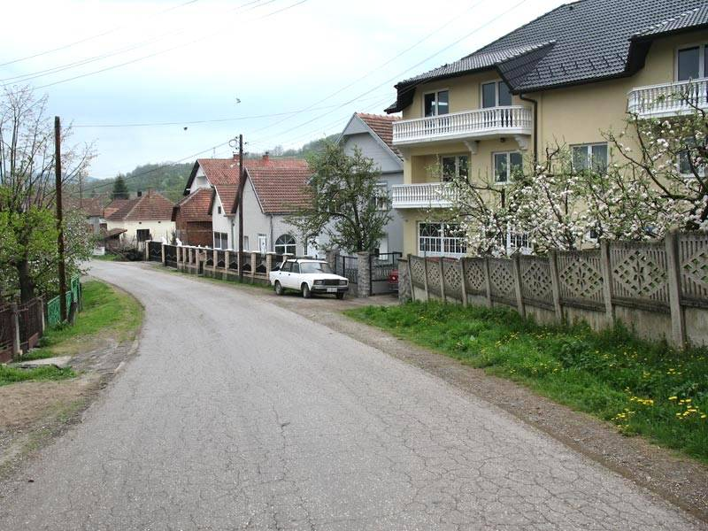 Brajnovac